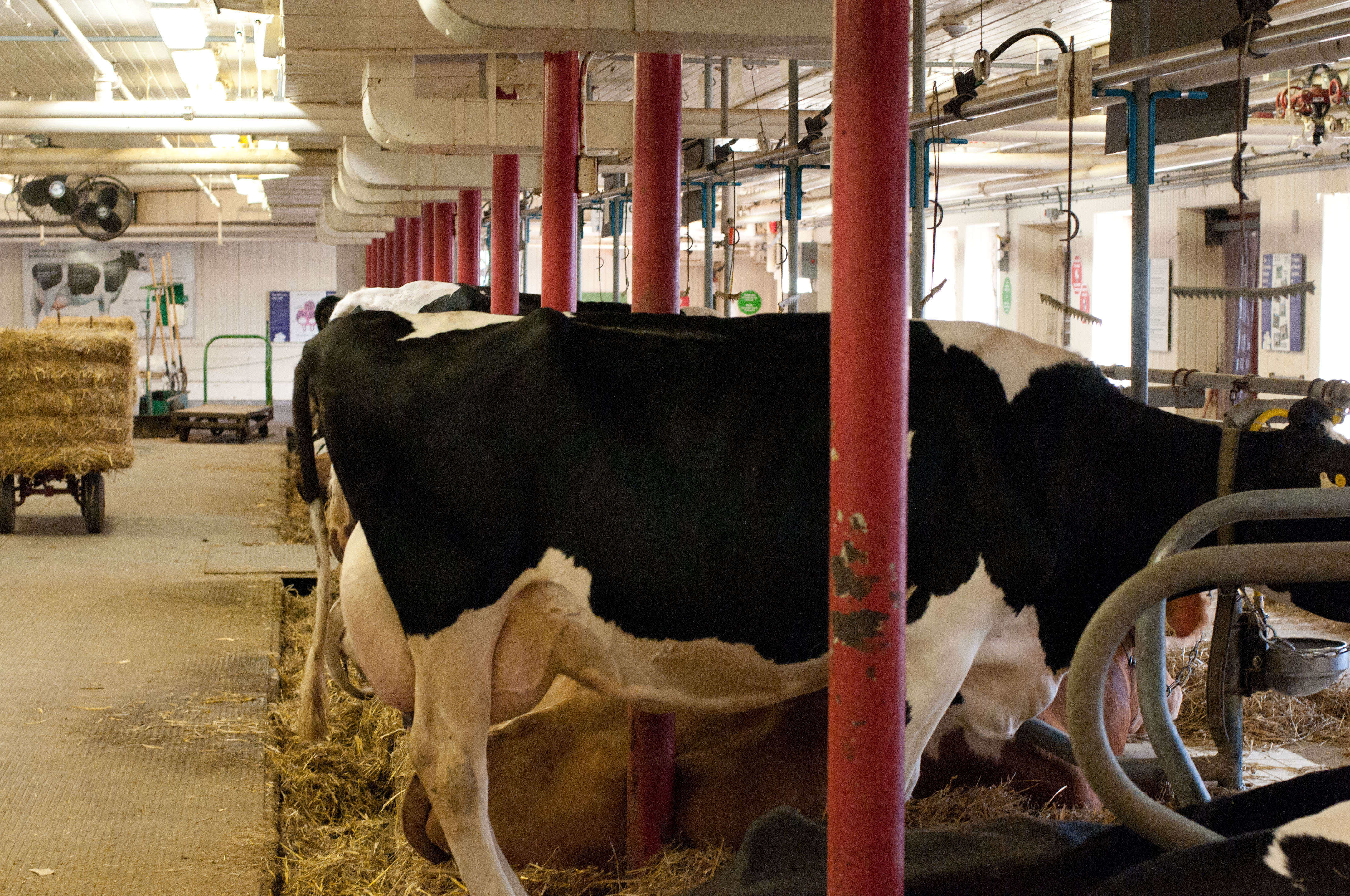 Dairy cattle at feeding time. Experimental Farm, Ottawa, Canada.